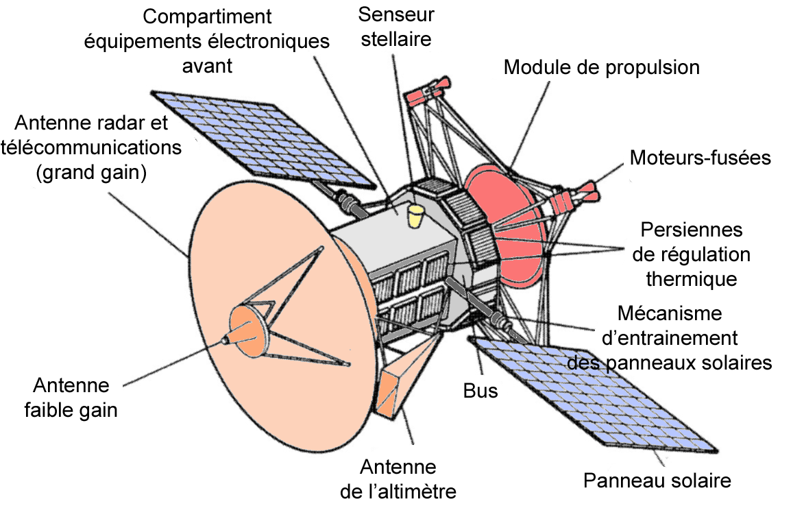 Diagram of the Magellan Venus Orbiter - french version